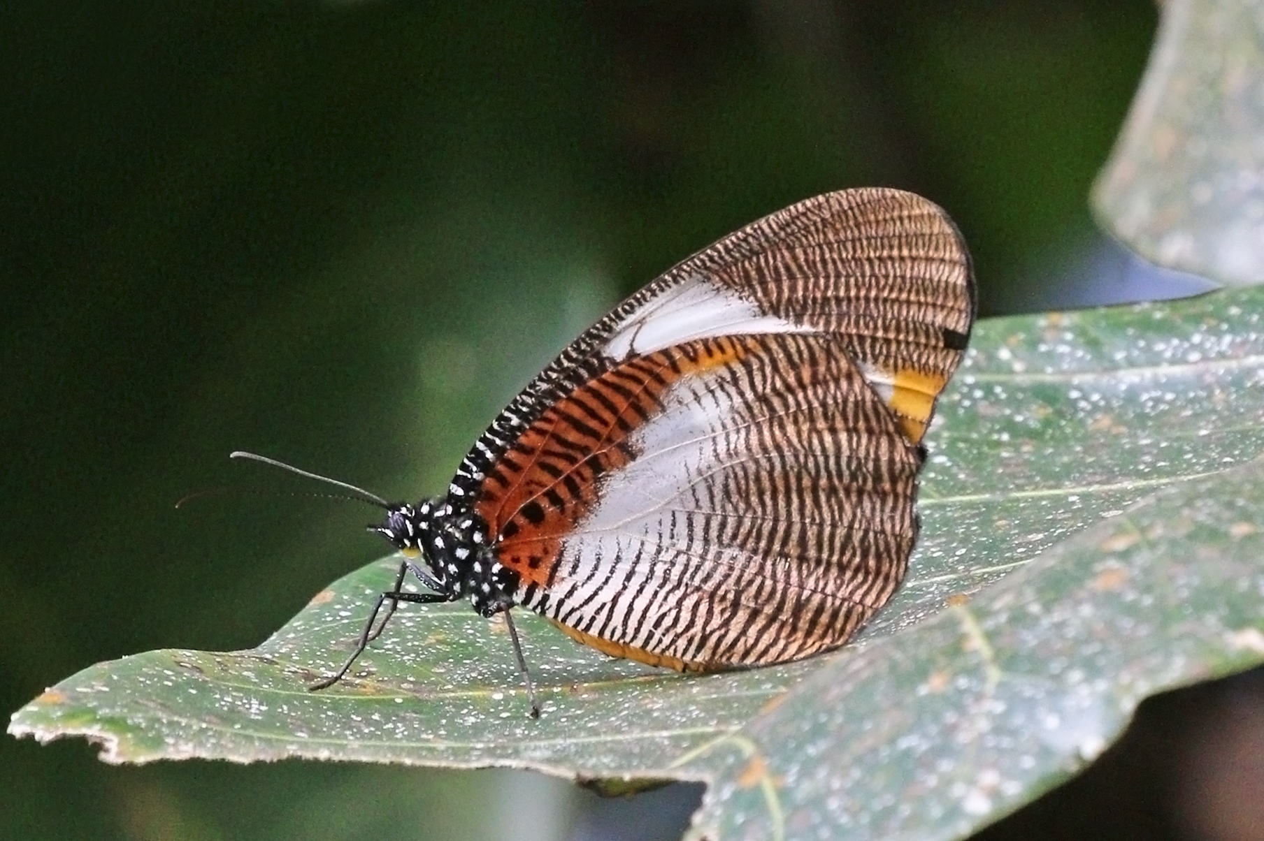 African palmfly (Elymniopsis bammakoo rattrayi), Kibale Forest, Uganda